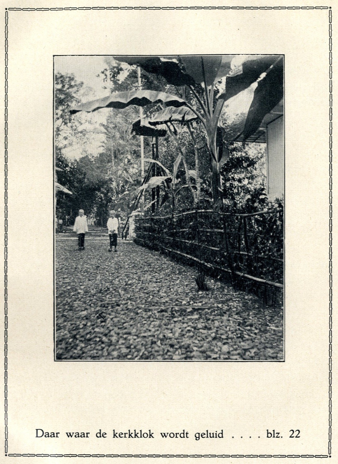 Picture from the novel 'Liefde-macht' about a church on the island Ceram.